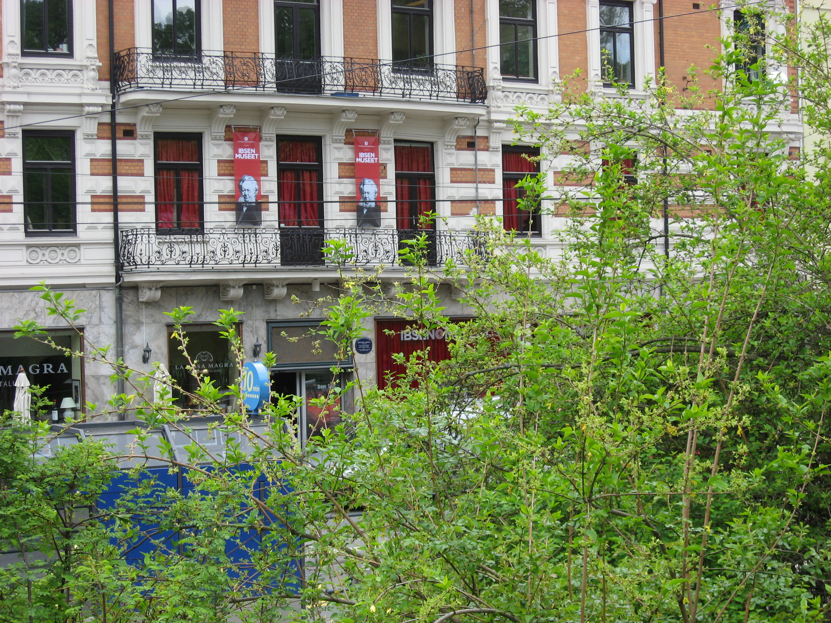 Ibsen museum i Oslo, Henrik Ibsen street in front. The museum opened on may 23. 2006